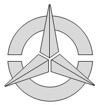 The emblem of Tateyama town, Toyama prefecture.